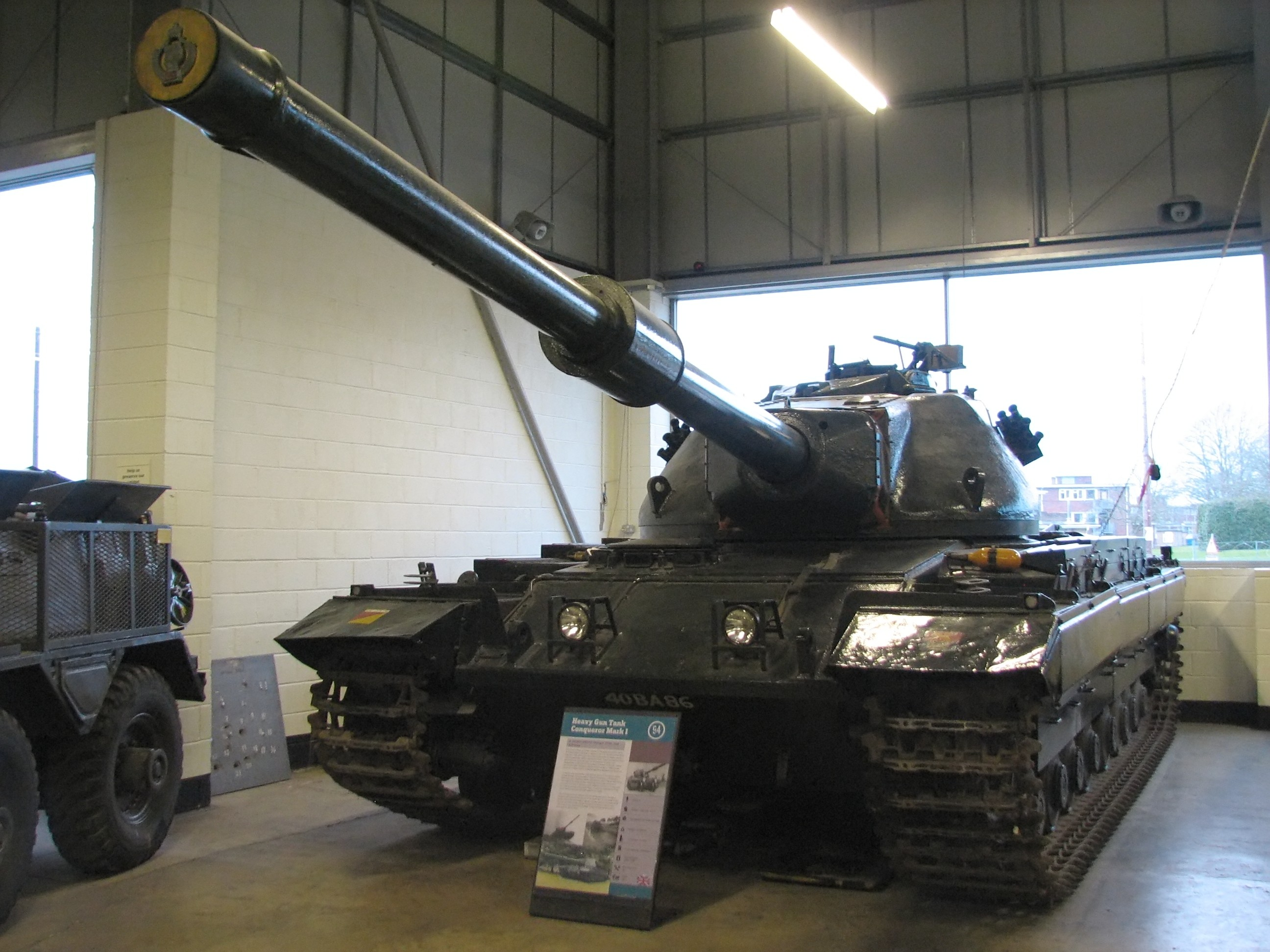 Conqueror tank, Bovington Tank Museum